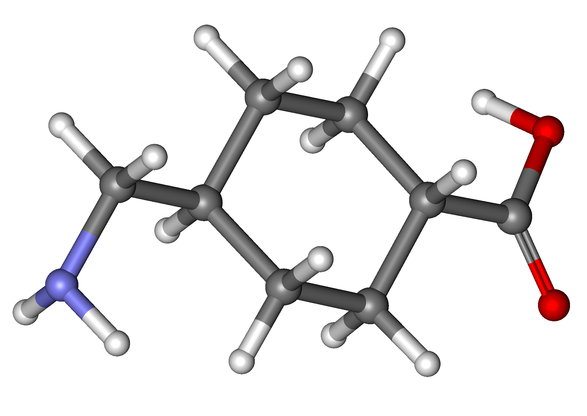 Ball-and-stick model of tranexamic acid molecule. The structure is taken from ChemSpider. ID 10482000